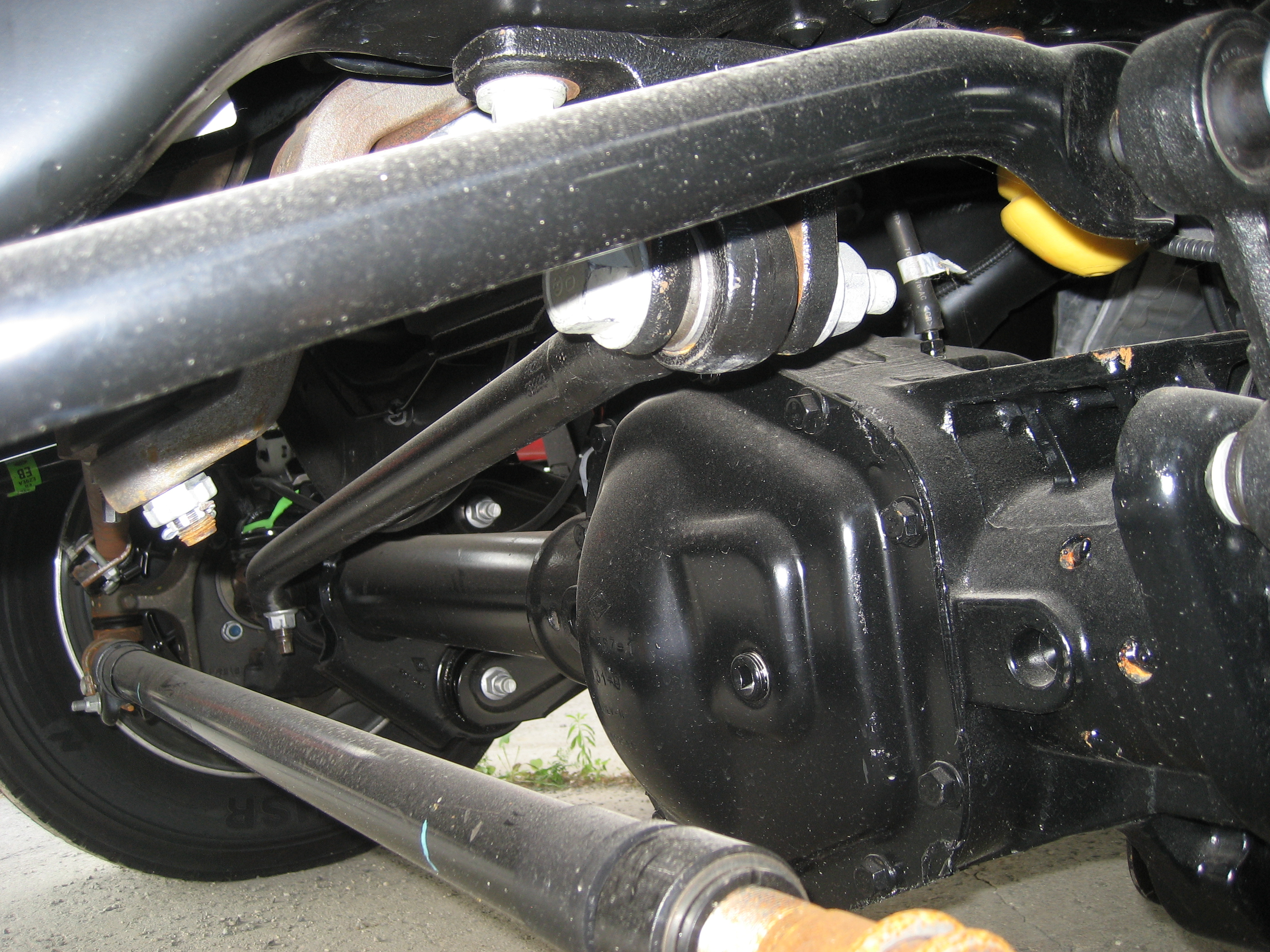 Dana Super 60 from a 2008 Ford F-450. Although the looking exactly like the regular Dana 60, there are great differences in strength.